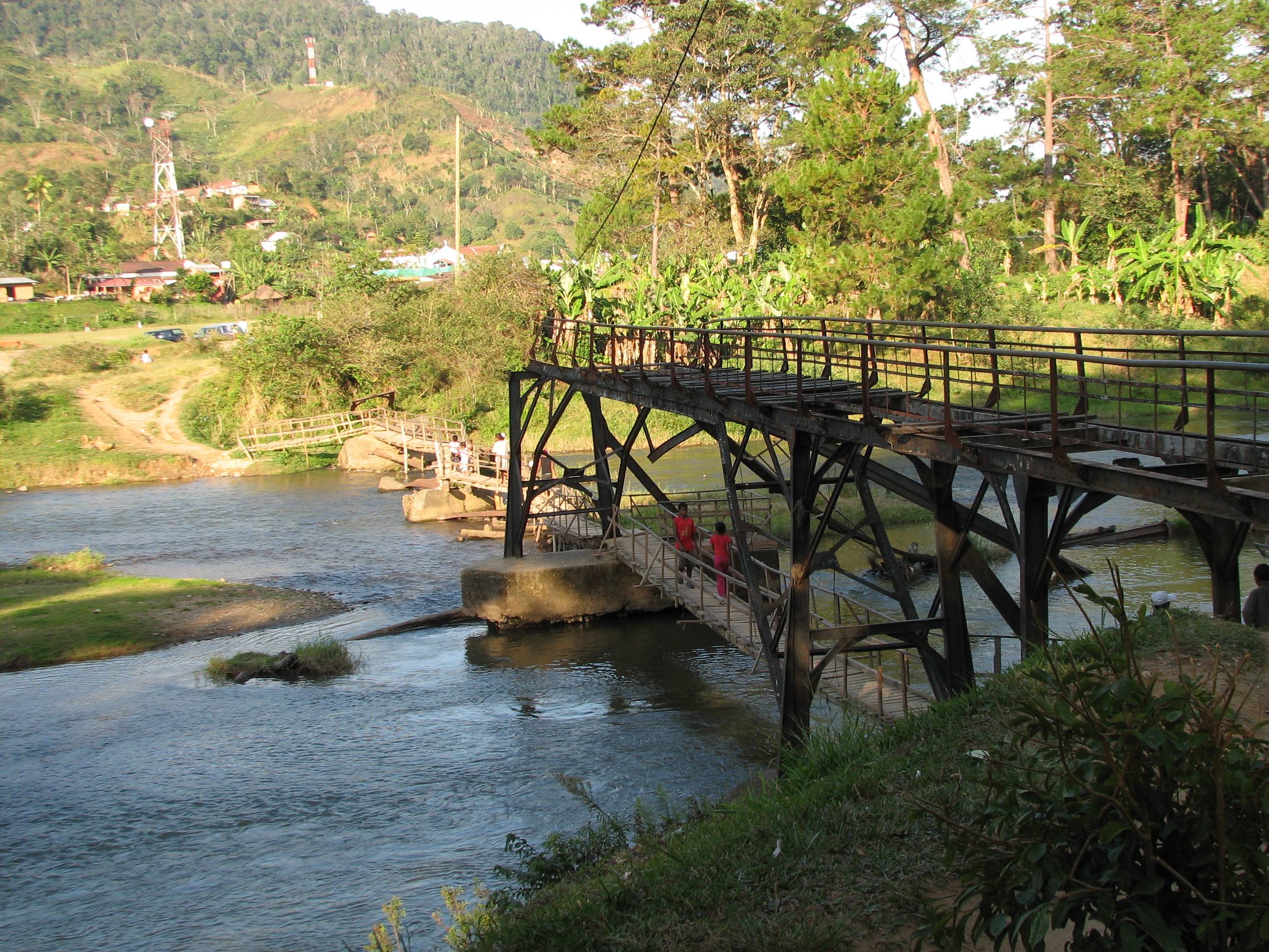 The original and more substantial one, part of which can be seen on the right, was destroyed by a cyclone